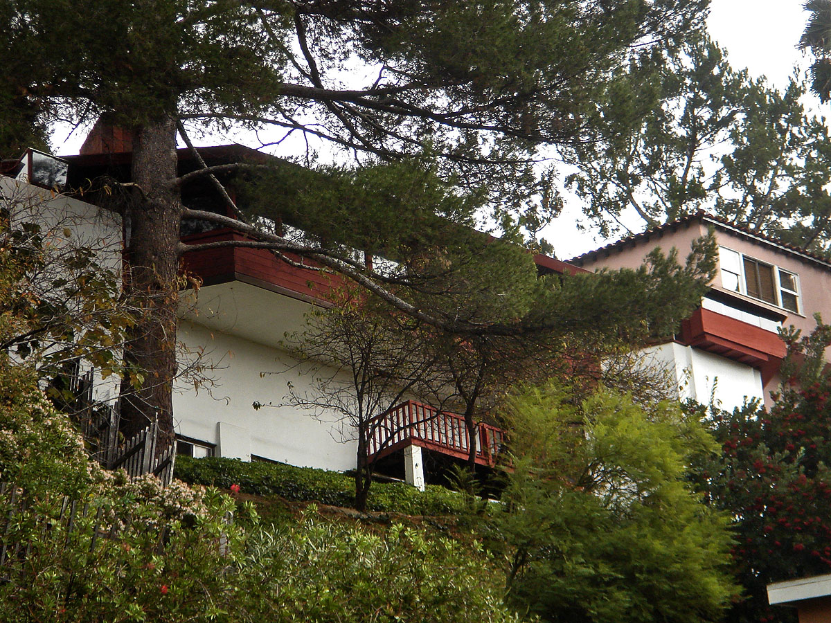 This is how the building looks like from below.